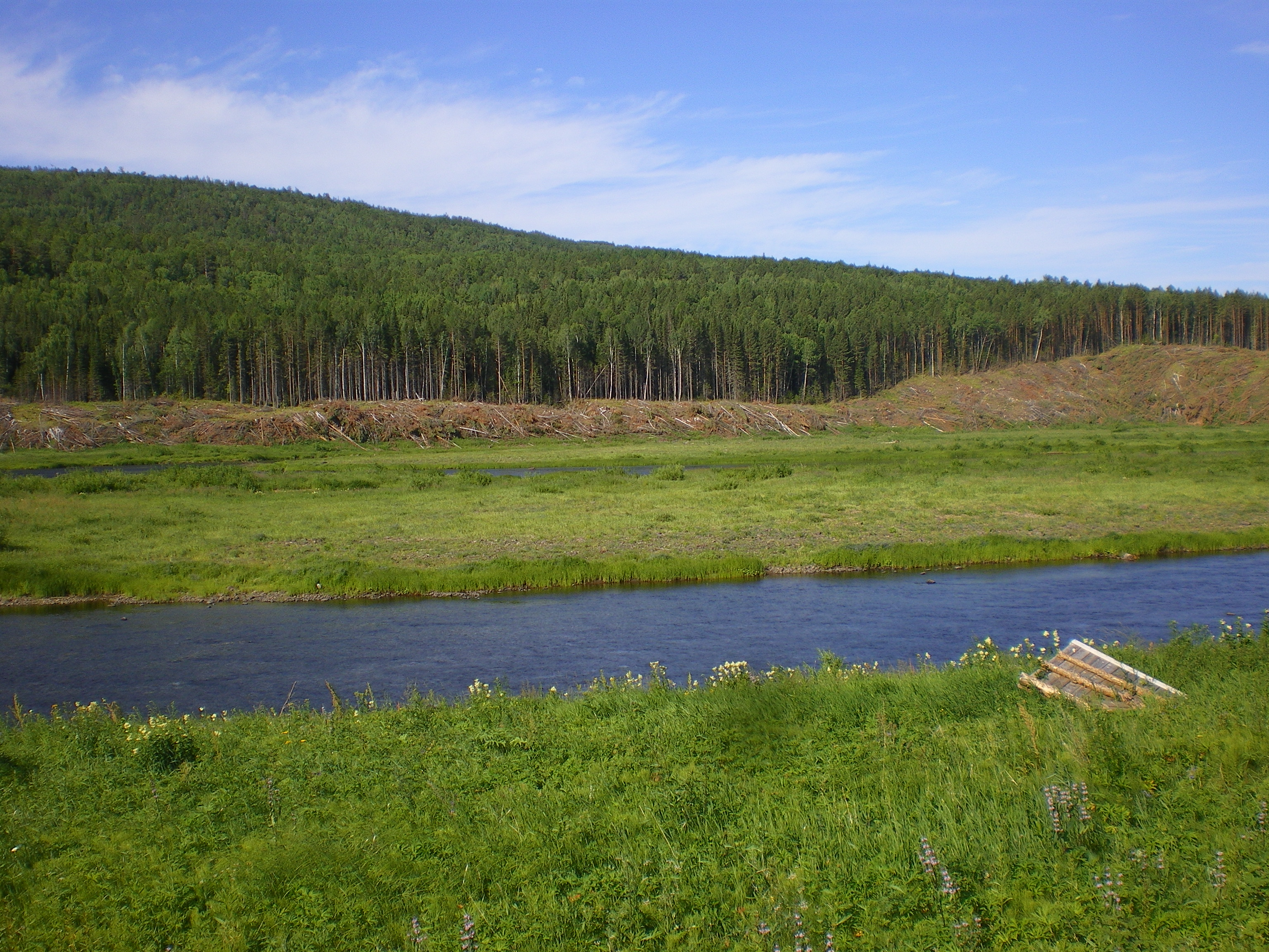 River Kova